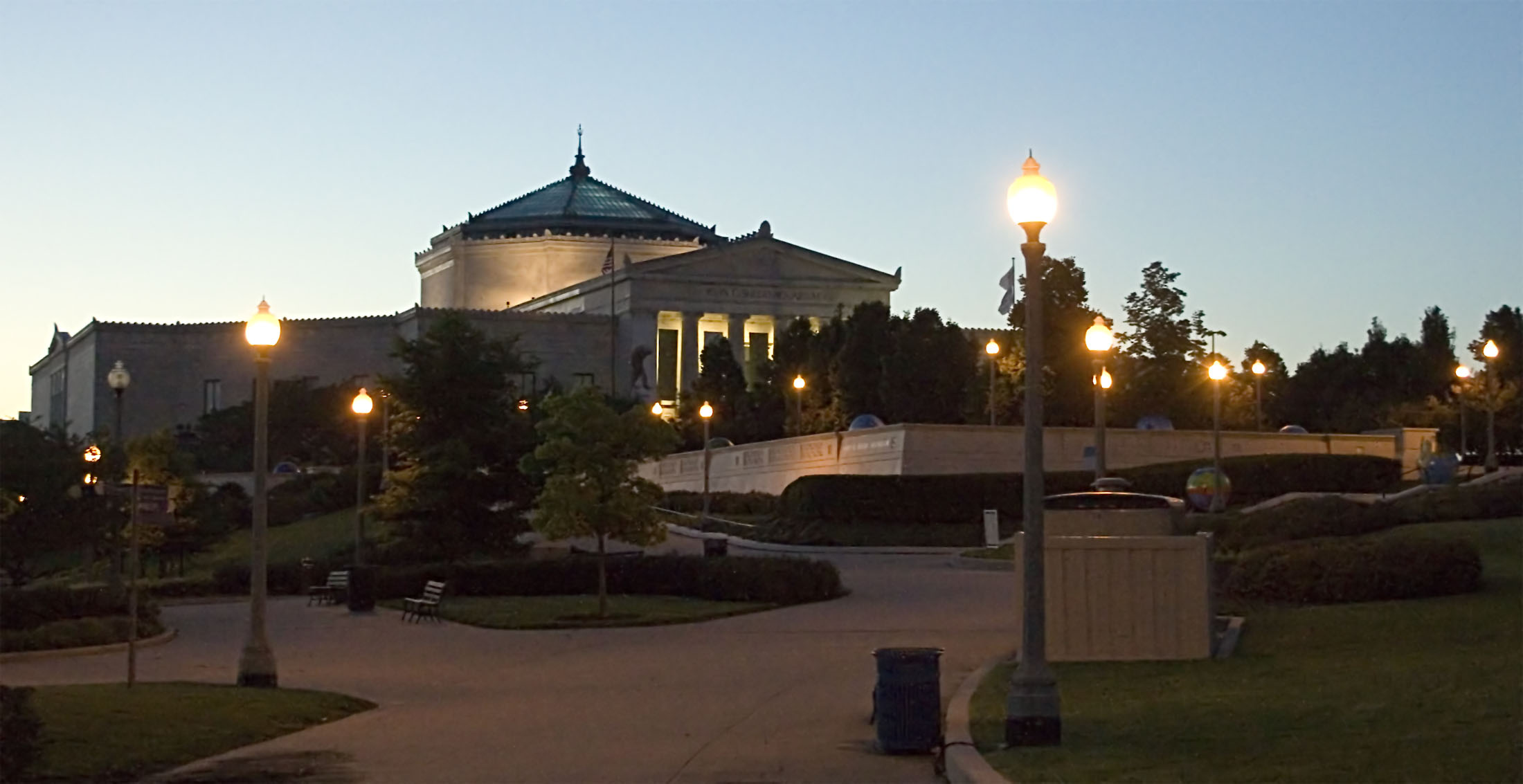 The Shedd Aquarium, as seen from the northwest in early dawn light.